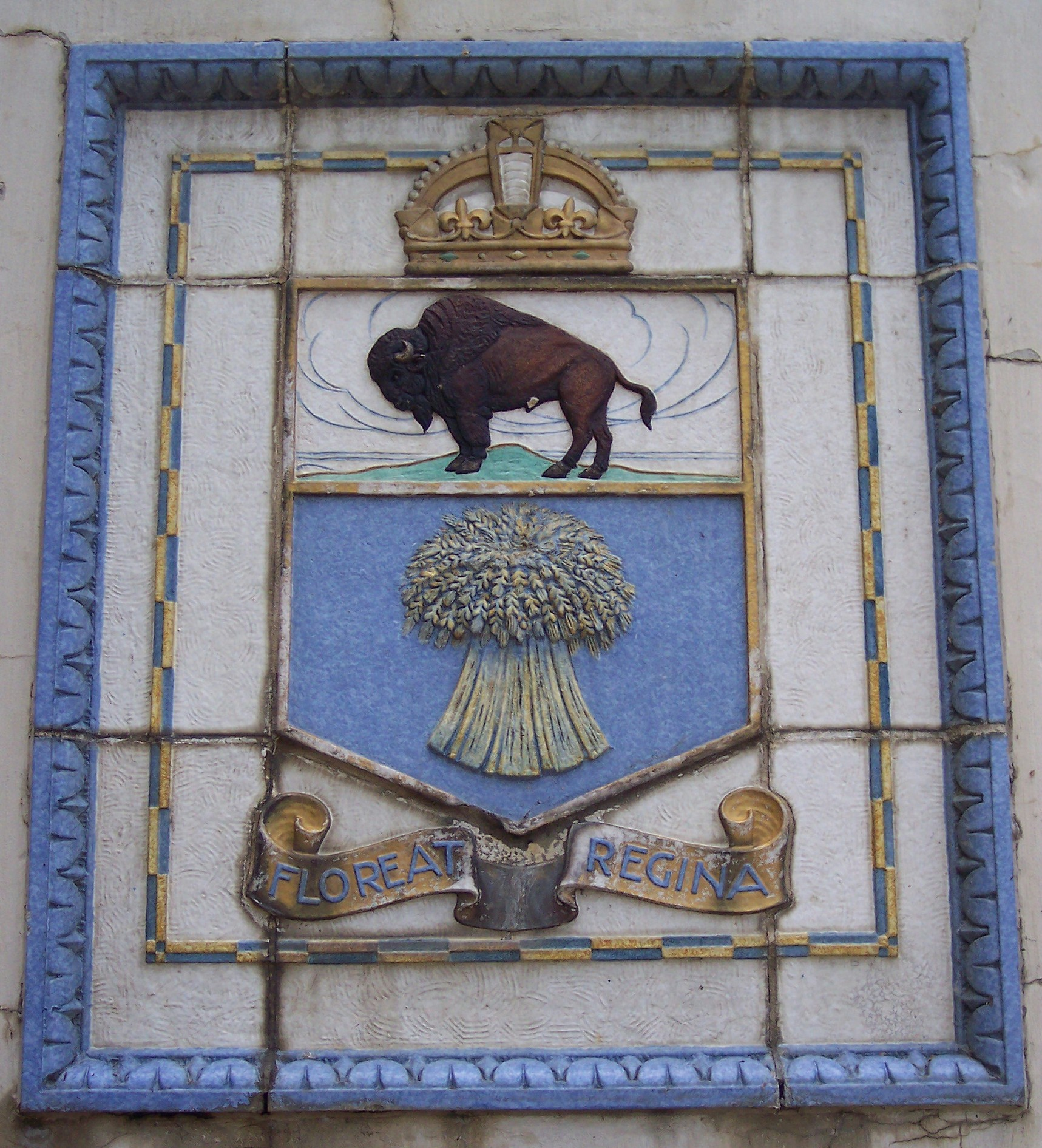 Coat of arms of Regina, Saskatchewan, Canada